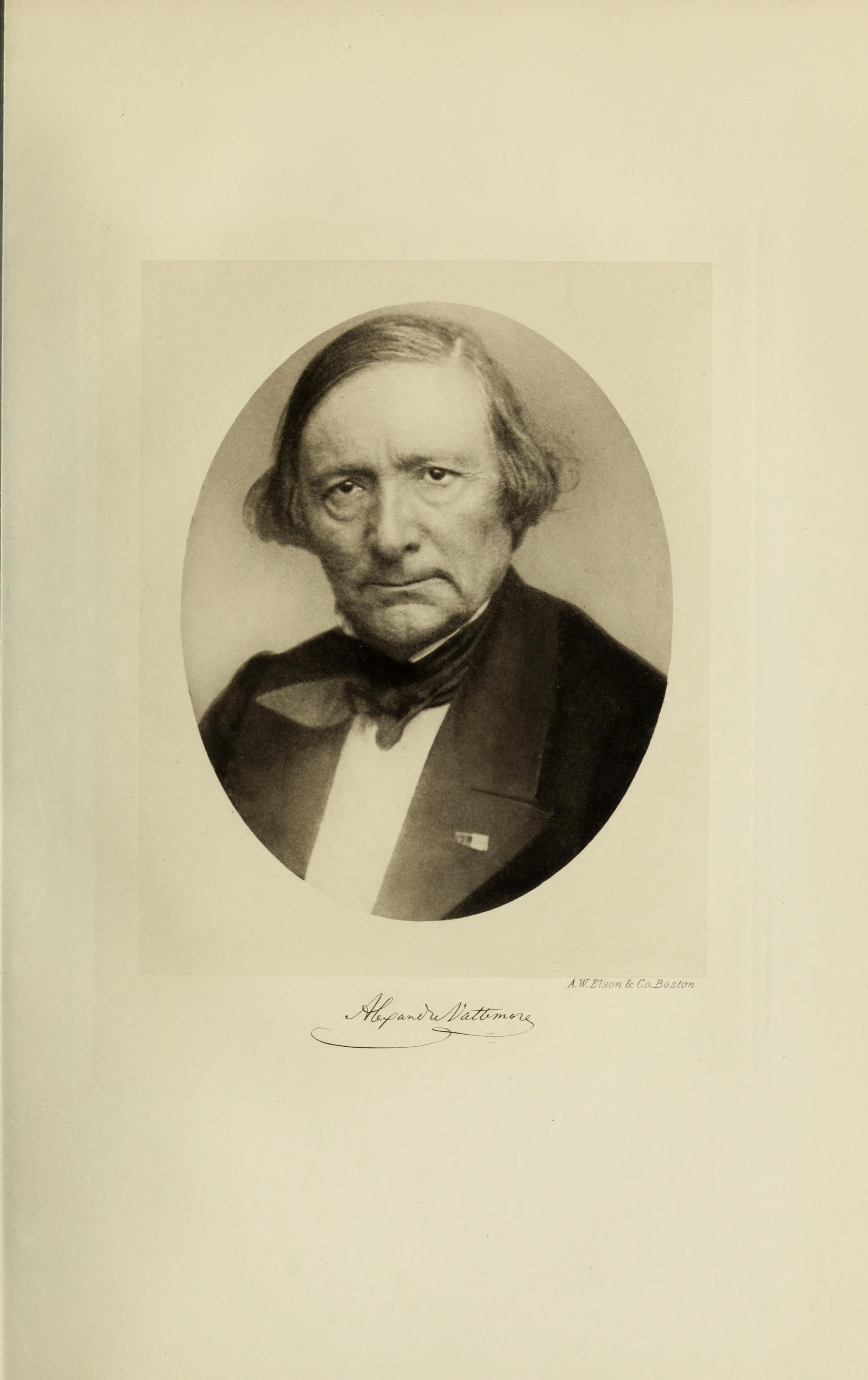 Alexandre Vattemare, a French ventriloquist and advocate for public libraries. Title: The Public Library of the city of Boston : a history Year: 1911 (1910s) Authors: Wadlin, Horace Greeley, 1851-1925 Subjects: Boston Public Library Publisher: Boston : Printed at the Library and published by the Trustees Caption: Nicholas Marie Alexandre Vattemare.Advocate of the establishment of a public library in Boston. Born in Paris near the close of the eighteenth century. In early life, a student of surgery with some army practice in that profession. Of wide European reputation as a ventriloquist and minor theatrical performer. After 1827 devoted his time and private fortune to the promotion of a system of international exchange of books, and in this connection advocated the establishment of free public libraries and museums in all countries.